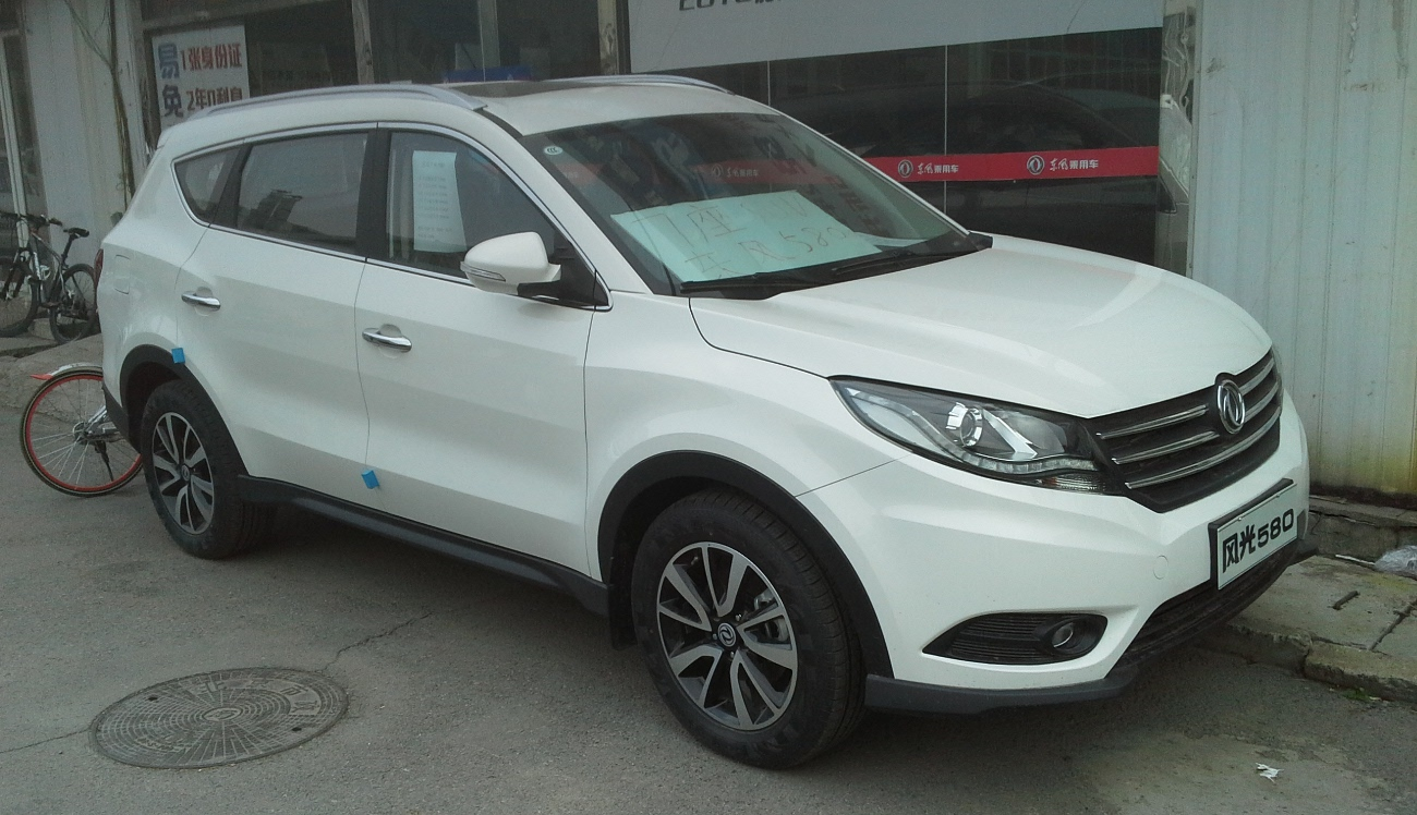 Dongfeng Fengguang 580 photographed in Beijing, China.